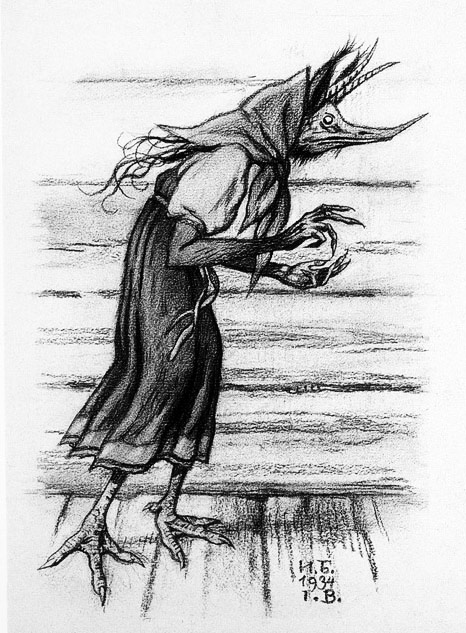 Image of Kikimora (Slavic mythology). Painting.